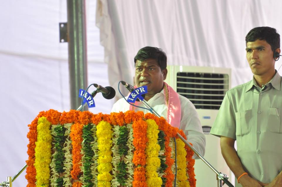 JeevanReddyWaterSpeech